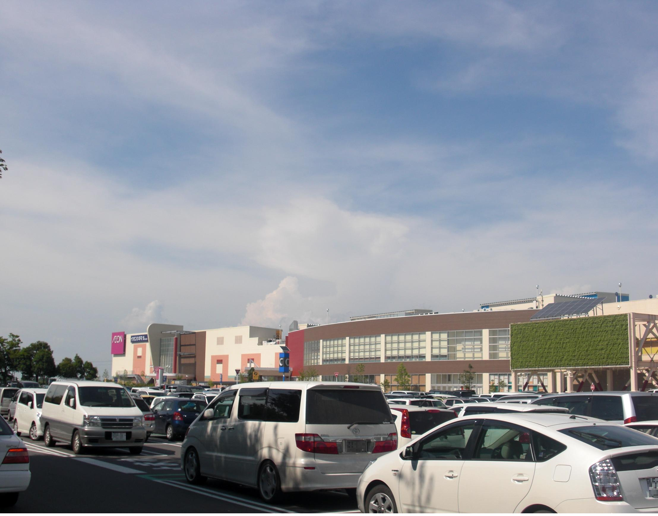 This is the AEON SHIMOTSUMA SHOPPING CENTER, which is located in Shimotsuma, Ibaraki, Japan.